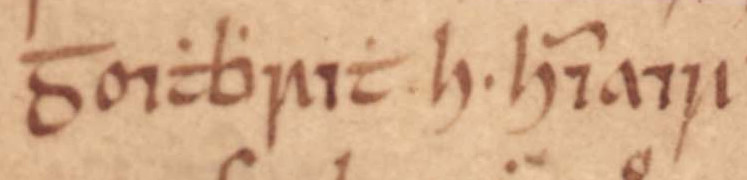 An excerpt from folio 29v of Oxford Bodleian Library MS Rawlinson B 489 (the Annals of Ulster). The excerpt concerns Gofraid ua Ímair (died 934). }